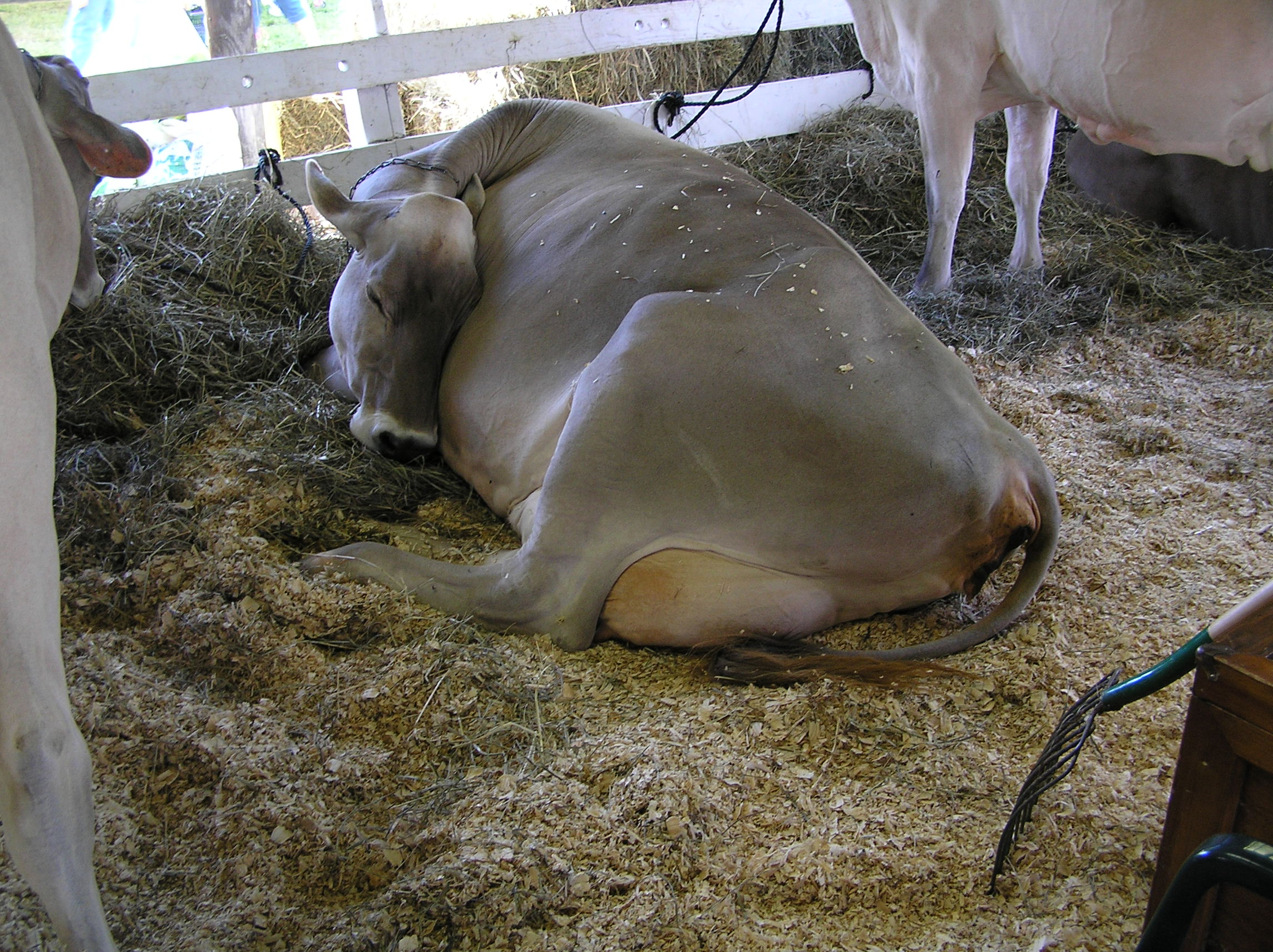 A cow resting at the Dutchess County, NY, Fair August 2012